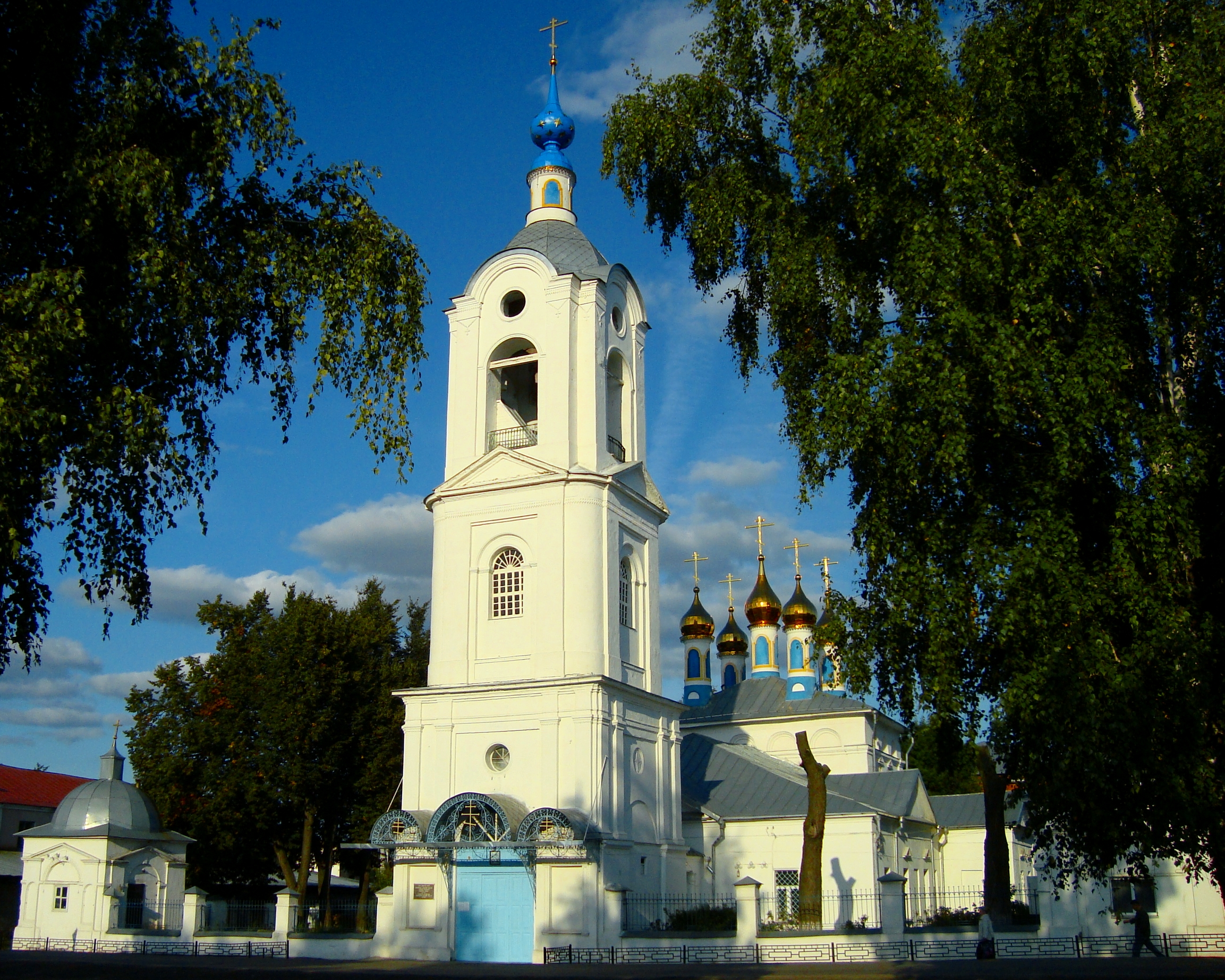 Pokrov town, Intercession of the Theotokos cathedral